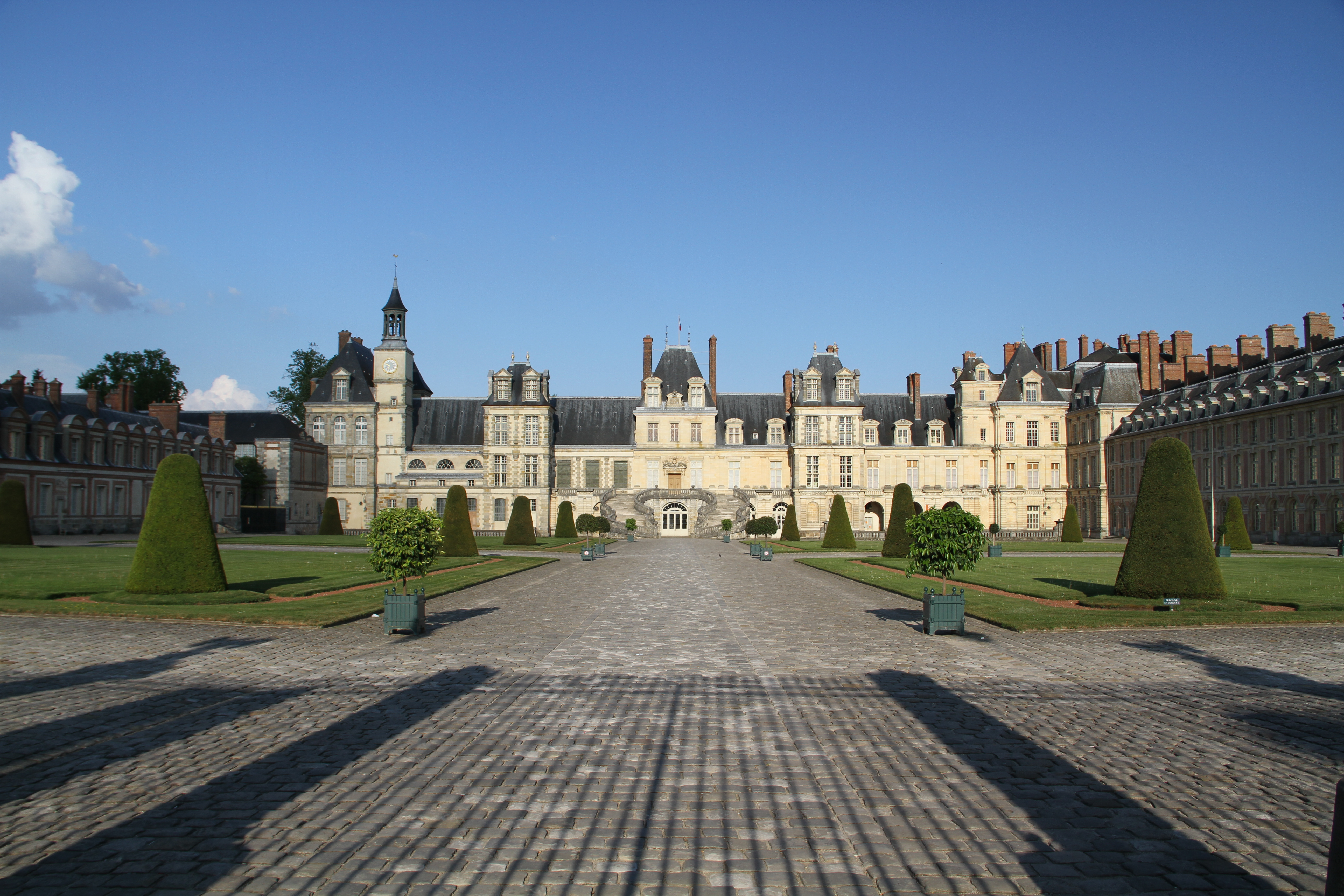 The castle of Fontainebleau, April 2011